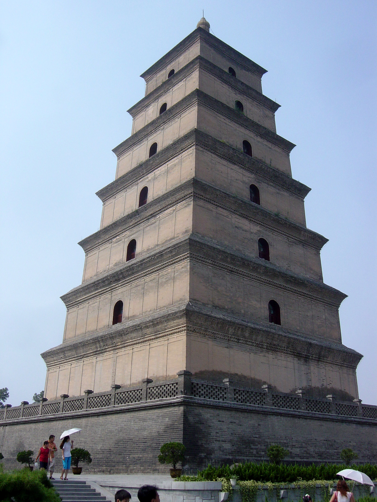 The Giant Wild Goose Pagoda of Xi'an, built in the year 652 AD during the Tang Dynasty, when the city was named Chang'an. Photo taken by Bobak Ha'Eri. August 2005. Please observe license and properly cite in use outside Wikipedia. If you have any questions about the licensing, please feel free to use the contact information at my user page.